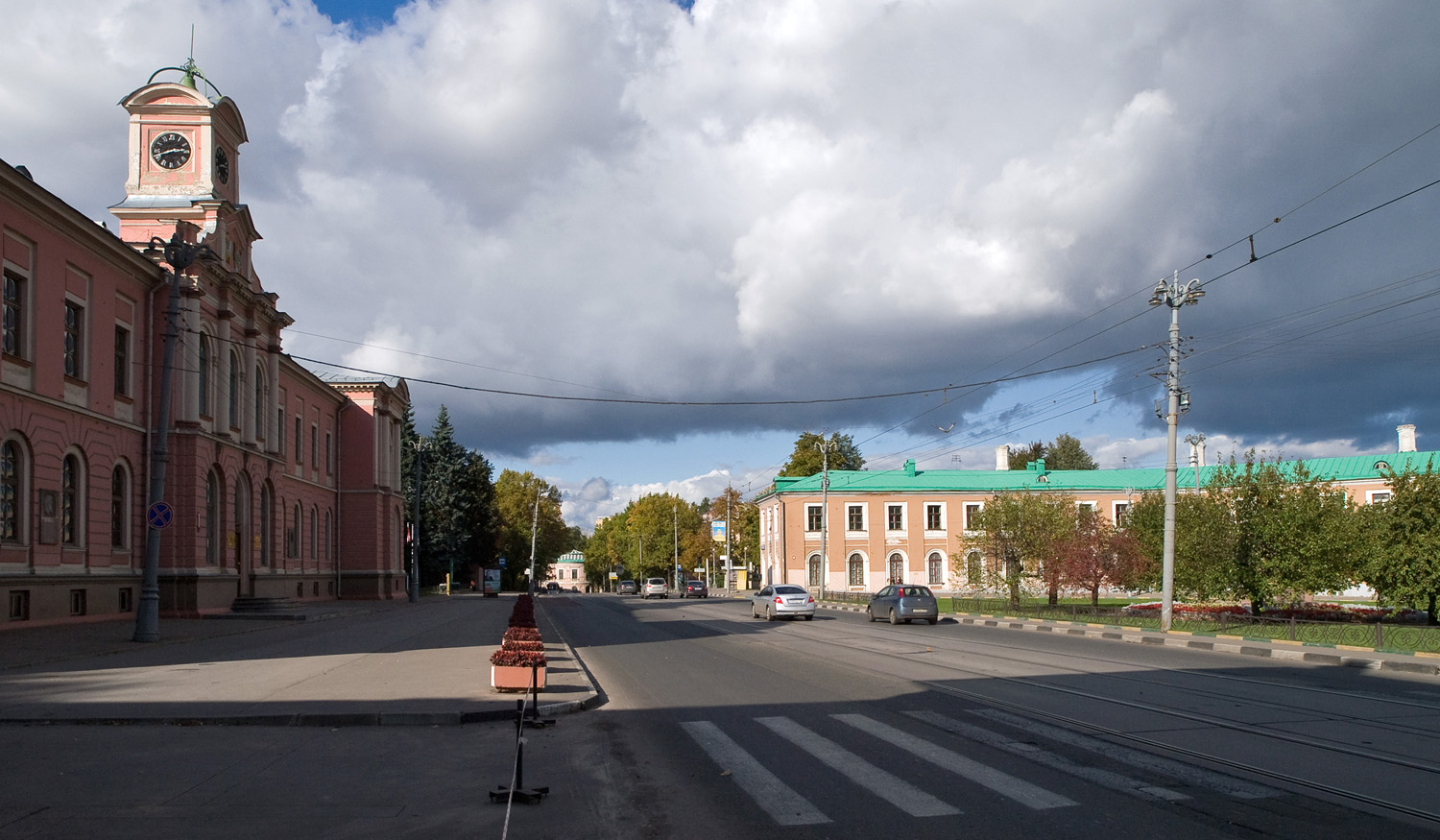 Main building of Timiryazev Agricultural Academy, Moscow (former manor house of Razumovsky Estate)